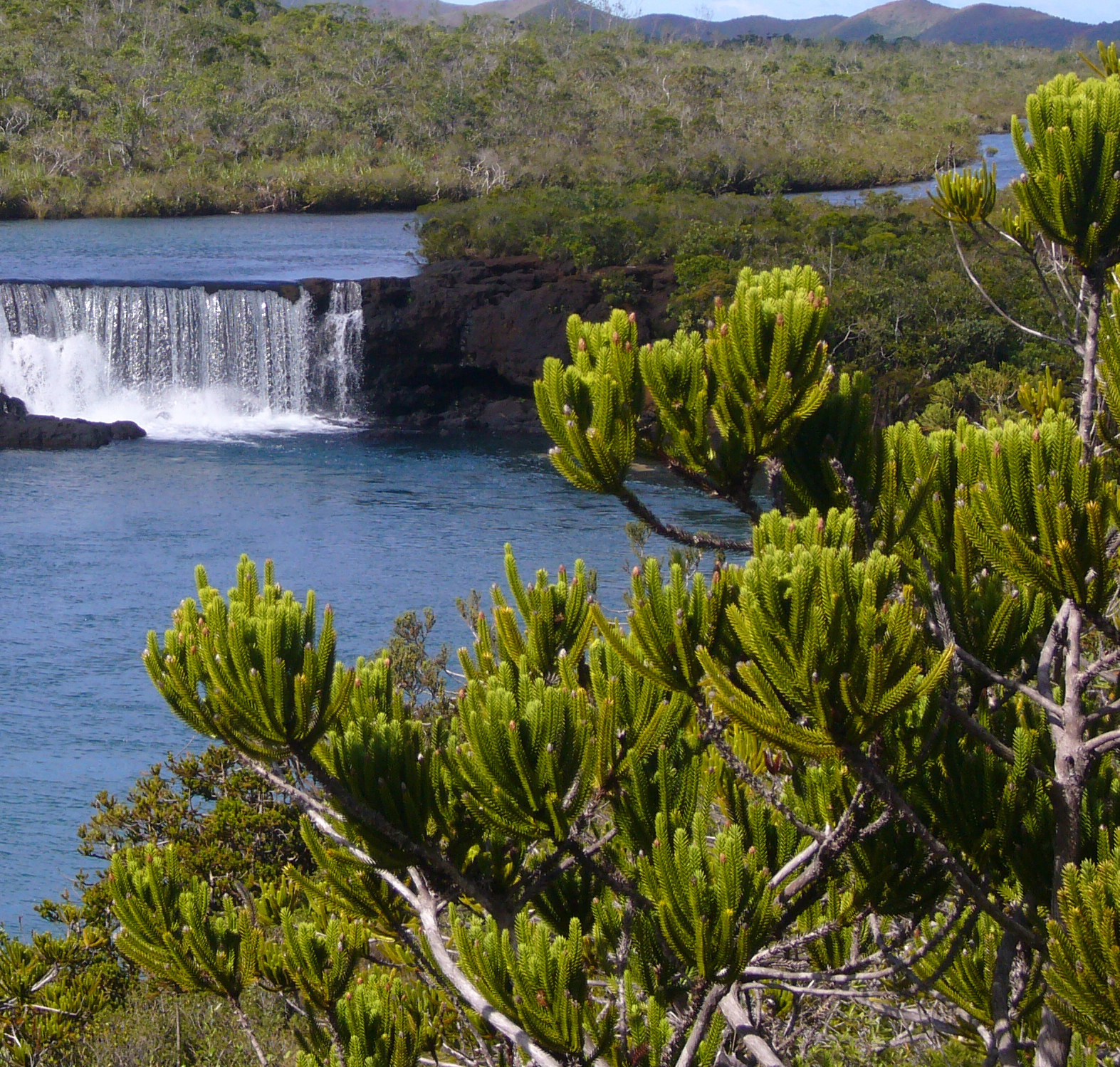 Neocallitropsis pancheri, Madeleine Falls, New Caledonia